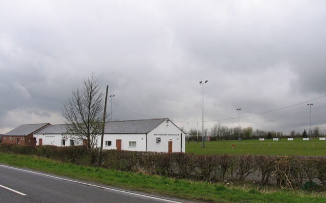 Kesteven Rugby Football Club Several rugby football pitches and a large club house.